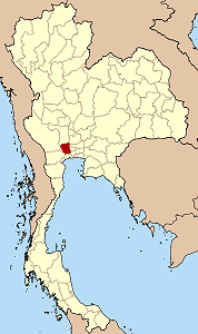 Map of Thailand highlighting Nakhon Pathom province